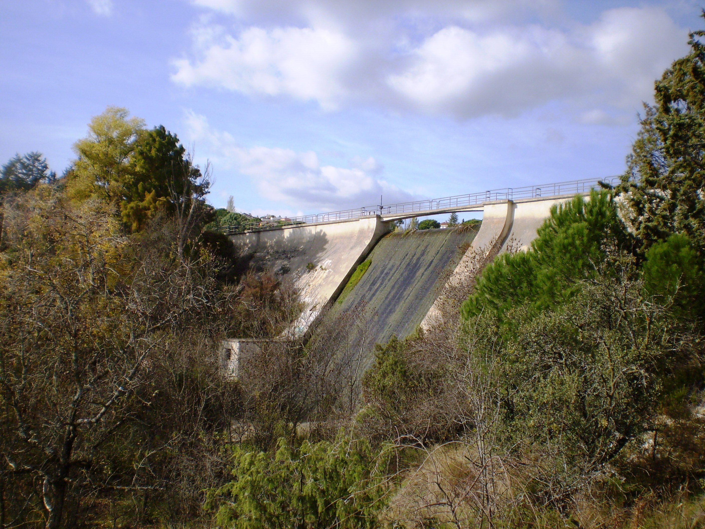 Los Peñascales Reservoir, in Torrelodones. Community of Madrid, Spain